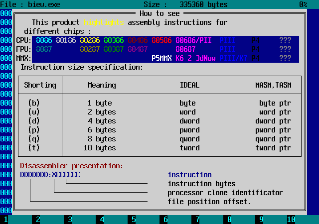 Screenshot of biew